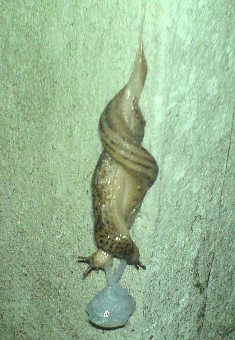 Limax maximus-mating